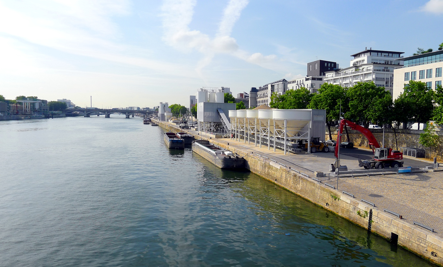 Port de Tolbiac - Paris